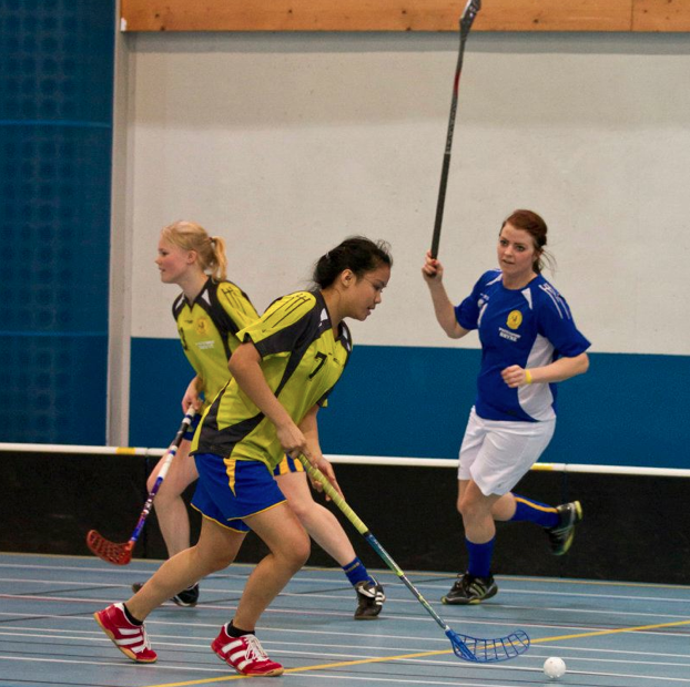 Floorball at Stavanger Idrettshall